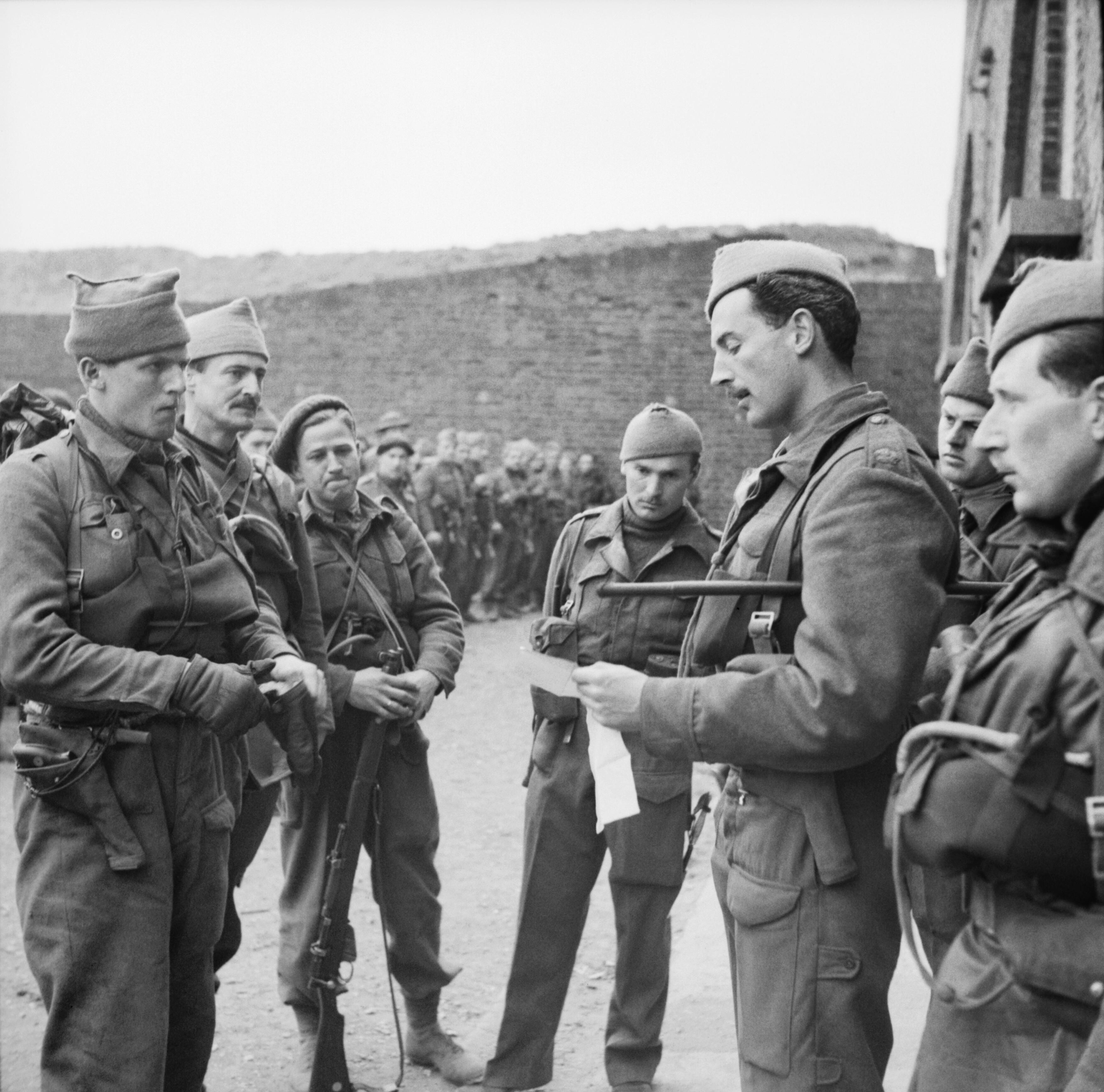 The British Army in the United Kingdom 1939-45 Major Lord Lovat, giving orders to his men before setting out on a commando raid on the French coast near Boulogne, 21 April 1942.